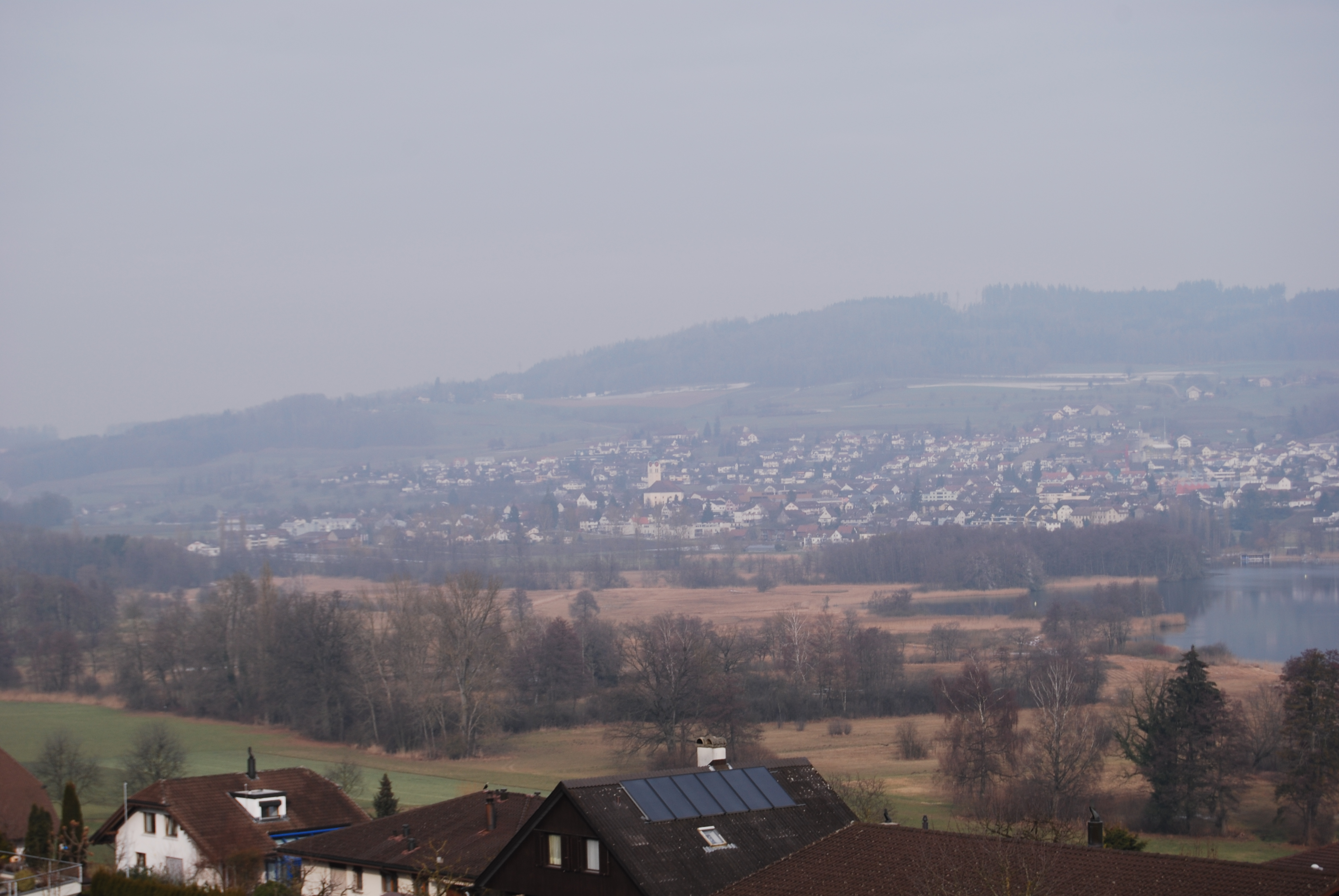 Seeengen and Lake Hallwil, seen from the village entry of Boniswil, canton of Aargau, SwitzerlandEsperanto: Bonsiwil kaj Lago de Hallwil, vidita de la vilaĝeniro de Boniswil, Kantono Argovio, Svislando